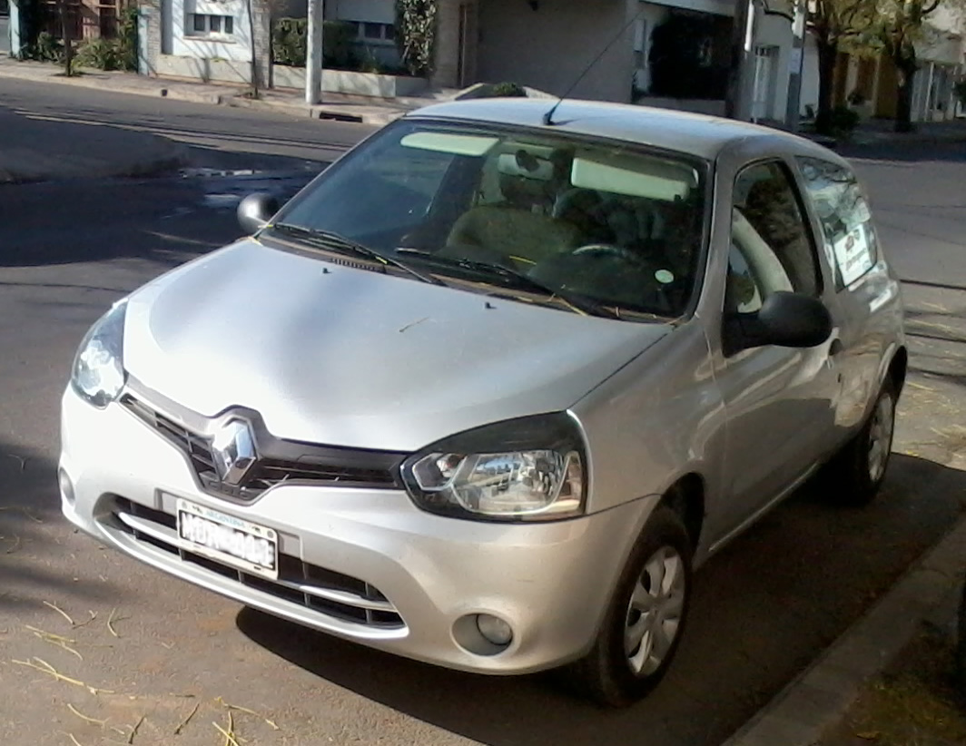 Renault Clio Mio (Argentina), Renault Novo Clio (Brasil), manufactured at Santa Isabel factory, Argentina. This is a facelifted version of the Renault Clio II